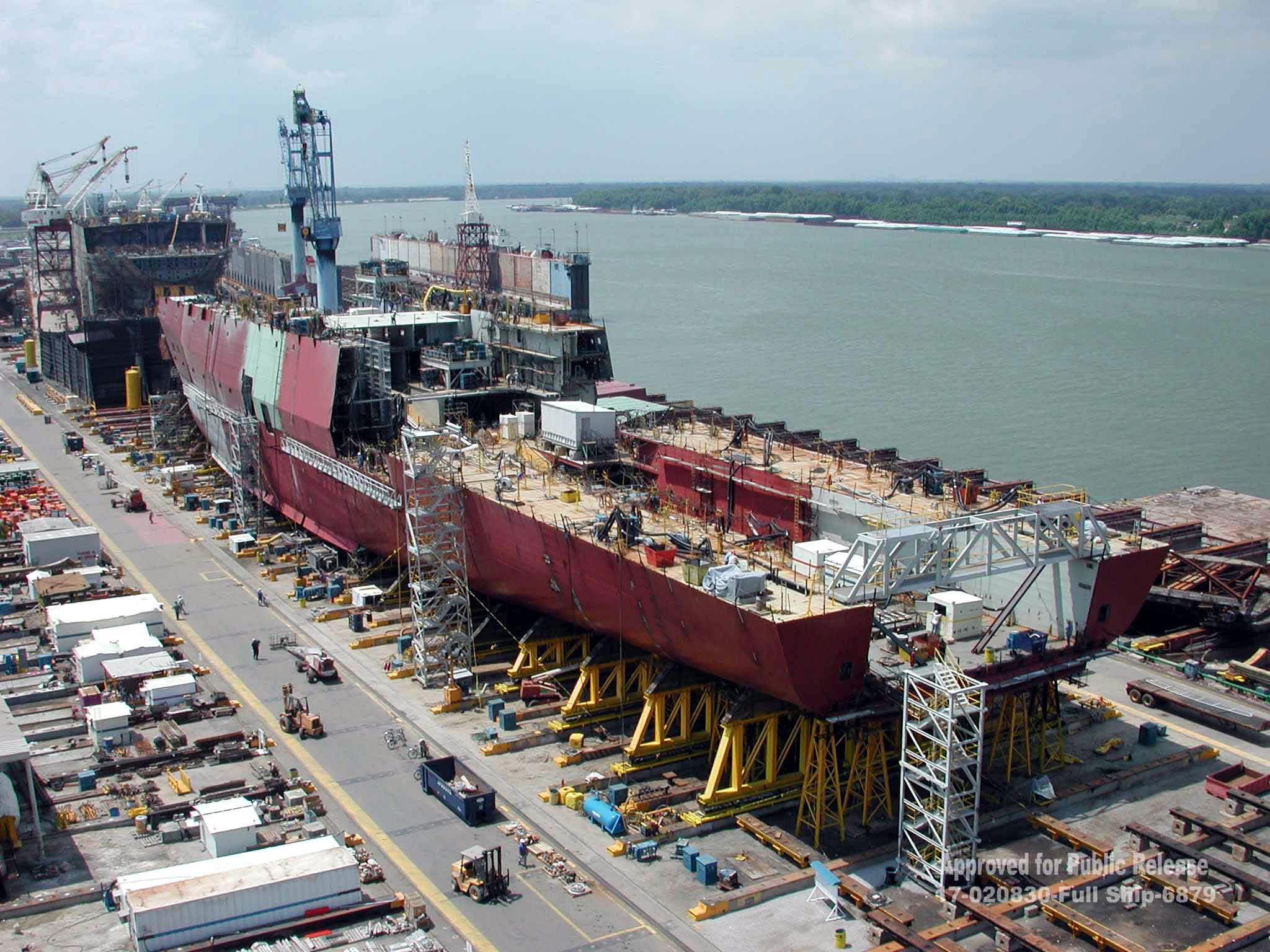 New Orleans, La. (Aug 30, 2002) -- Pre-commissioning unit San Antonio (LPD 17) is under construction at Northrop Grumman Ship Systems, Avondale Operations. San Antonio achieved a major construction milestone, passing the fifty percent completion point. The Landing Platform Dock 17, San Antonio Class, is the latest class of amphibious force ship for the United States Navy. The mission of the San Antonio Class is to transport the US Marine Corps "mobility triad" – that is, Advanced Amphibious Assault Vehicles (AAAVs), air-cushioned landing craft (LCAC), and the MV-22 Osprey tiltrotor aircraft – to trouble spots around the world. Construction of the first ship, the San Antonio (LPD 17), began in June 2000 and is scheduled for delivery to the Navy in the spring of 2003. U.S. Navy photo by Spike Thibodeaux. (RELEASED)